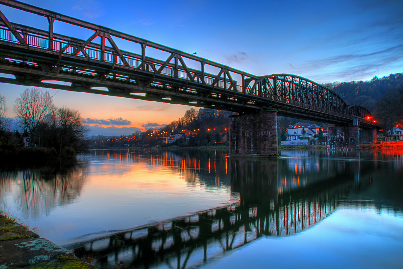 Die stillgelegte Eisenbahnbrücke über die Weser in Hameln